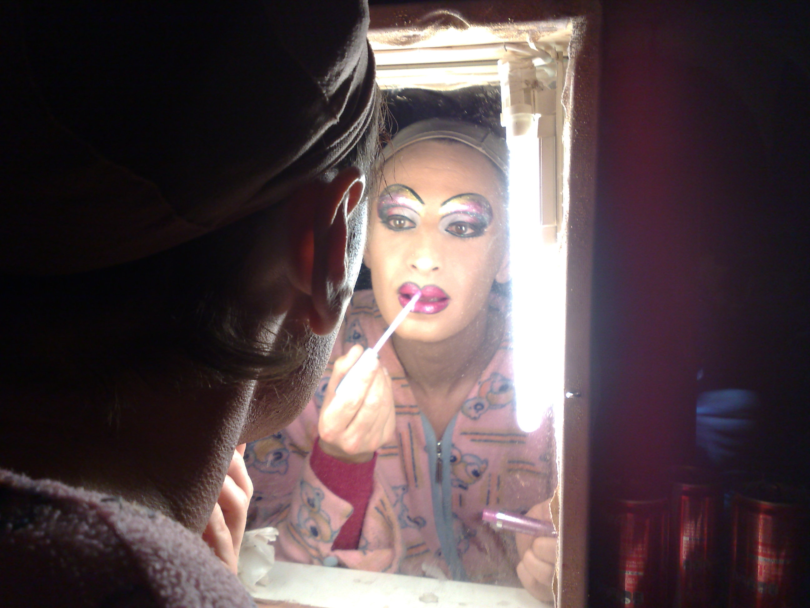 Lorella Sukkiarini (italian drag queen)